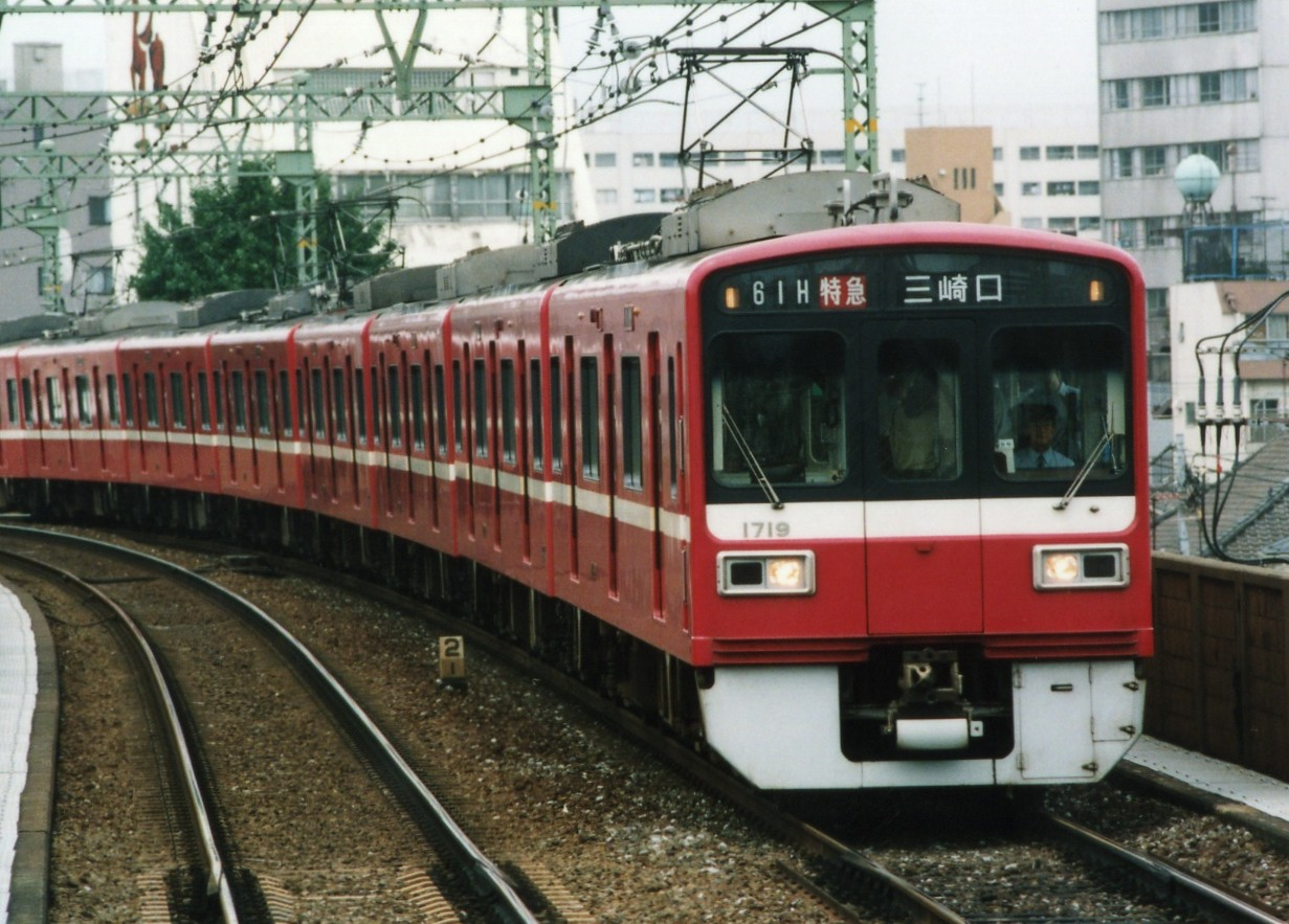 Keikyu 1719 at Shimbamba Station